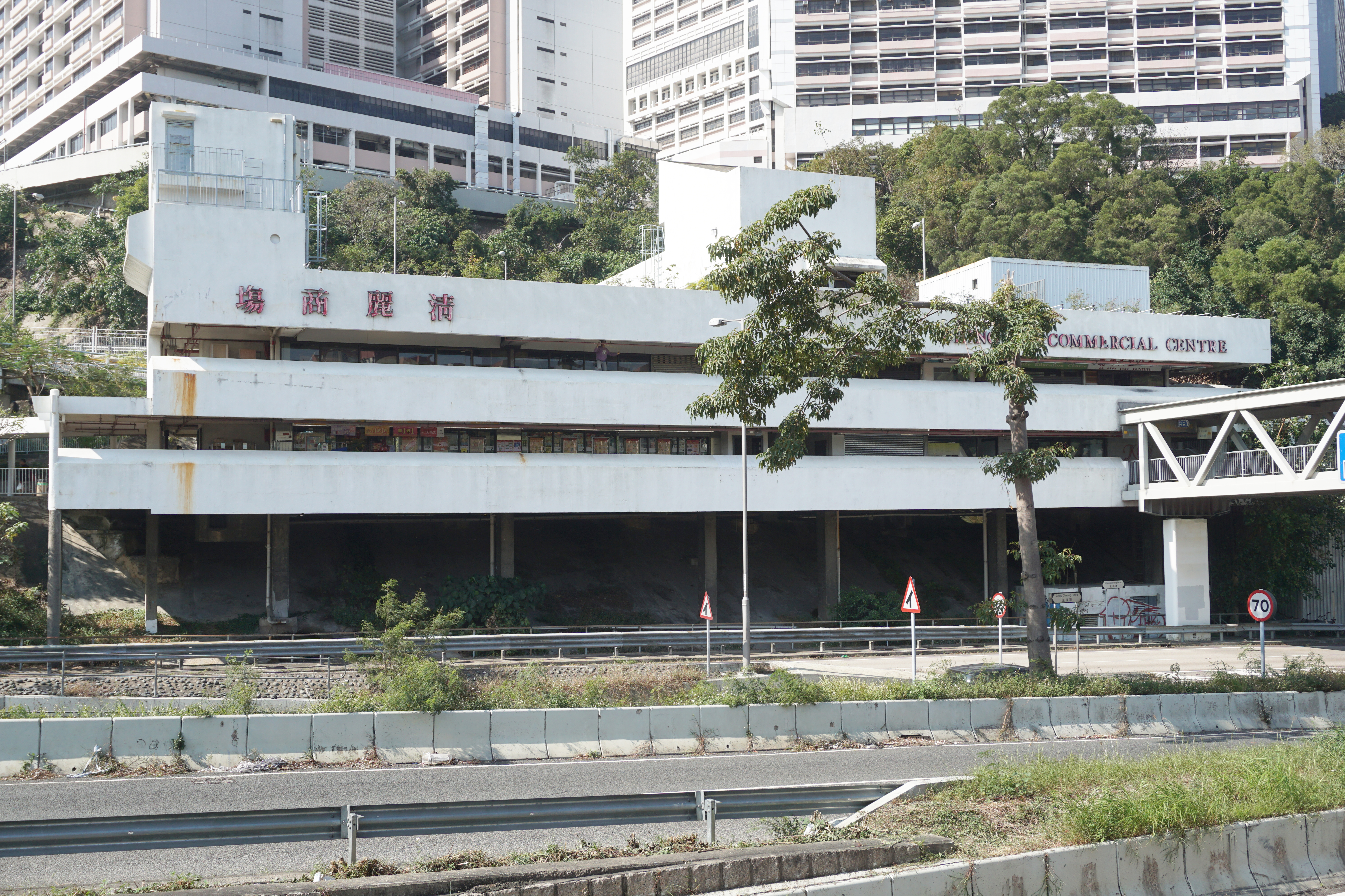 Ching Lai Commercial Centre in Mei Foo, Hong Kong.